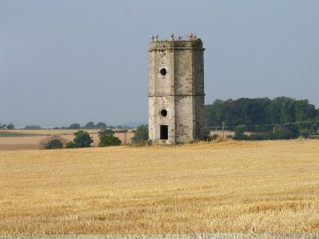 Doocot by Pitkierie. A nice octagonal example.